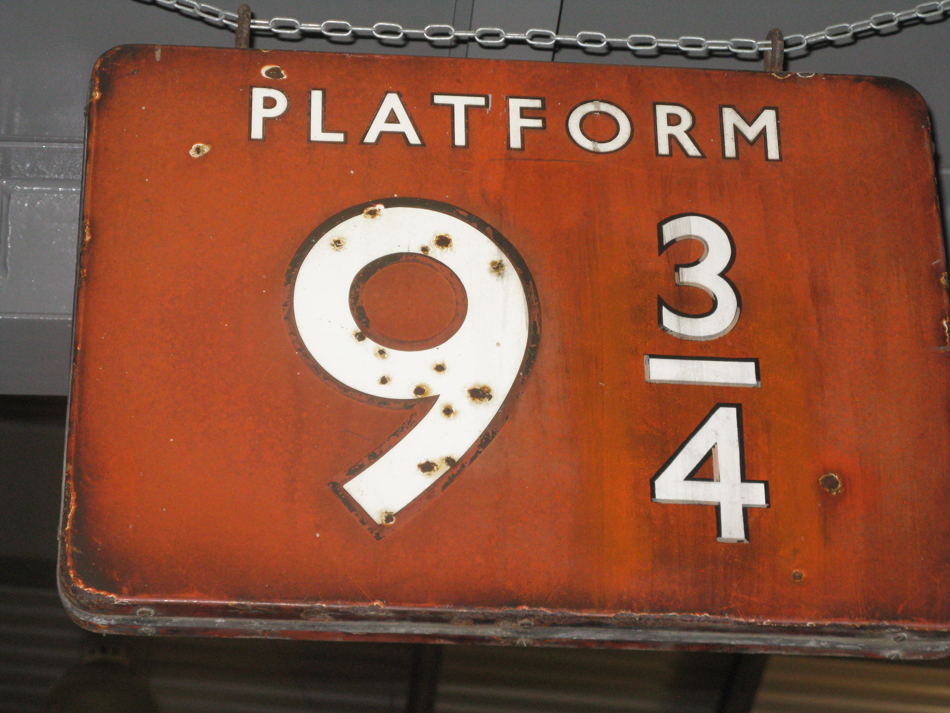 Platform 9 and 3/4